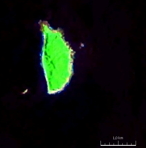 satellite image of Y'Ami Island, Batanes Islands, Philippines (northernmost island of the Philippines)